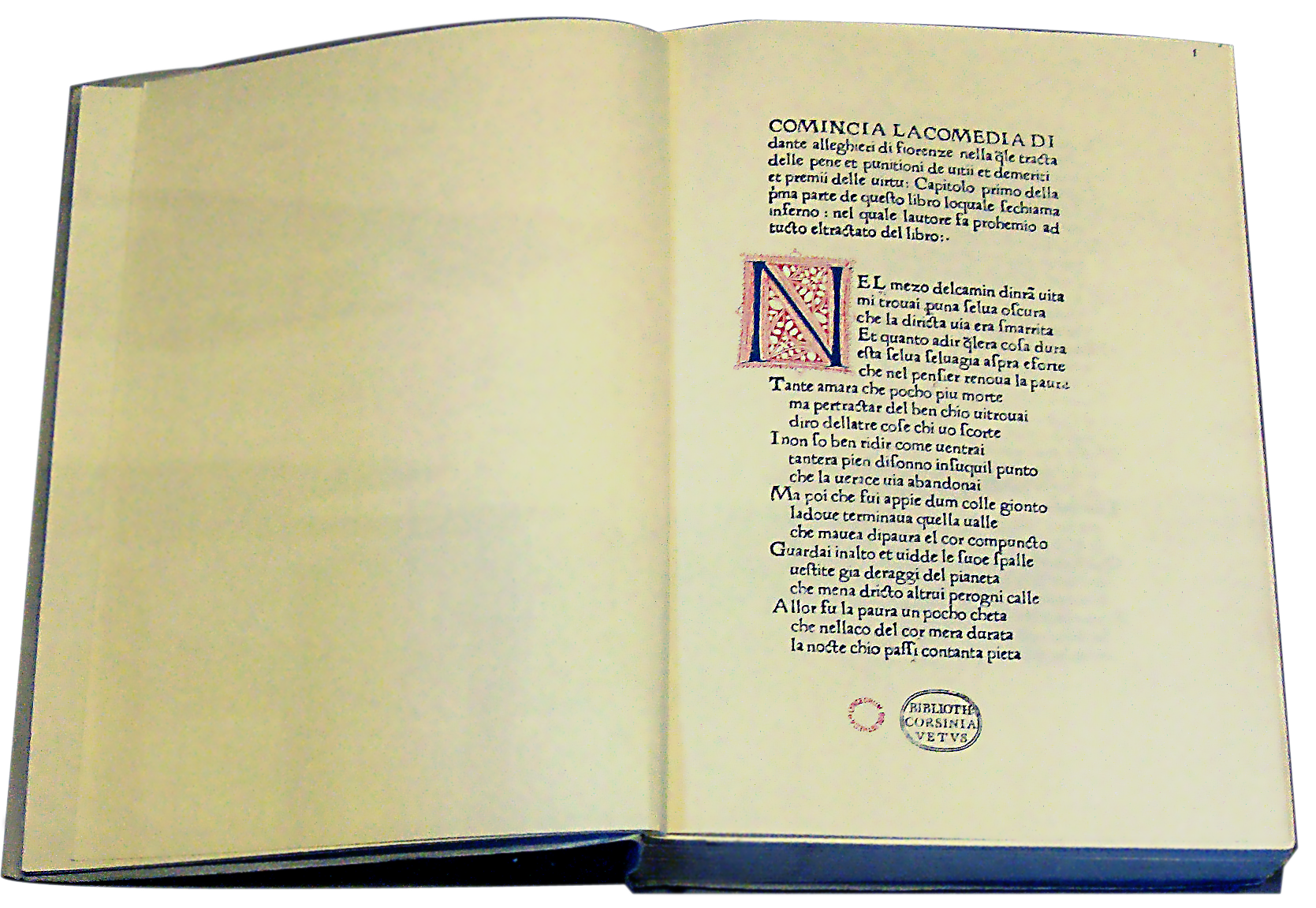 "La divina commedia" by Dante Alighieri; printed on 11 April 1472; Hall of the Liberal Arts and of the Planets; Trinci Palace, Foligno, Italy